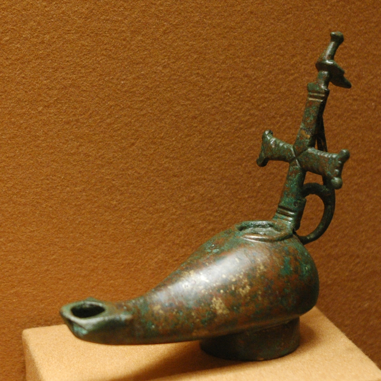 Lamp with cross and bird.